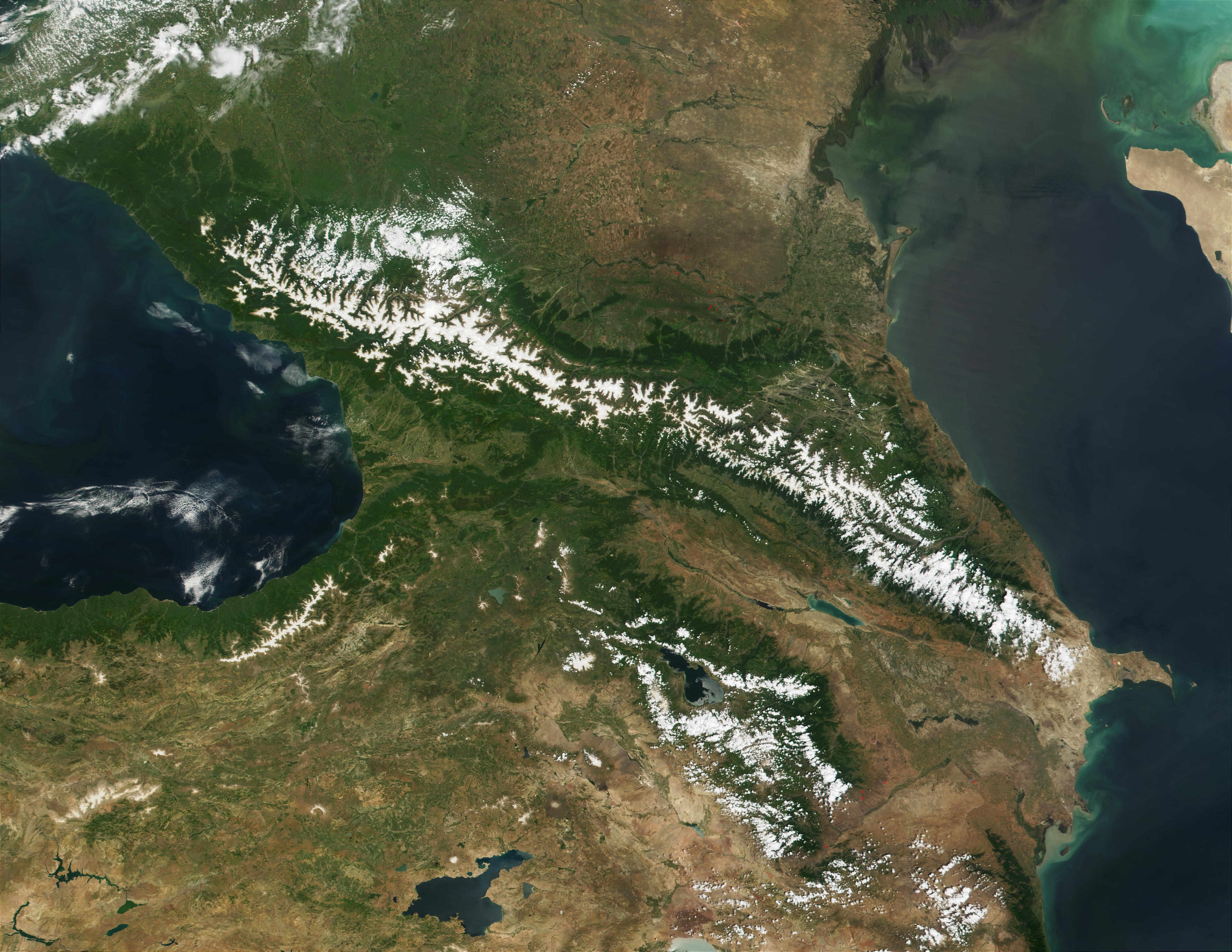 Satellite image of the Caucasus, from NASA’s Visible Earth